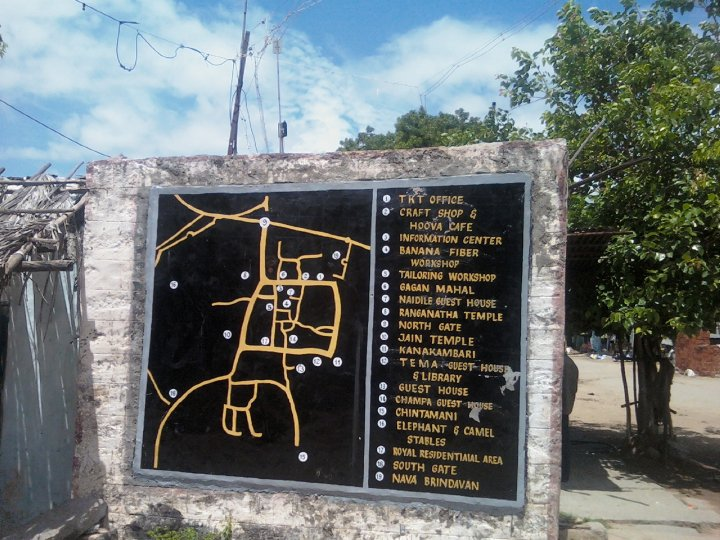 I have clicked this photo during my visit